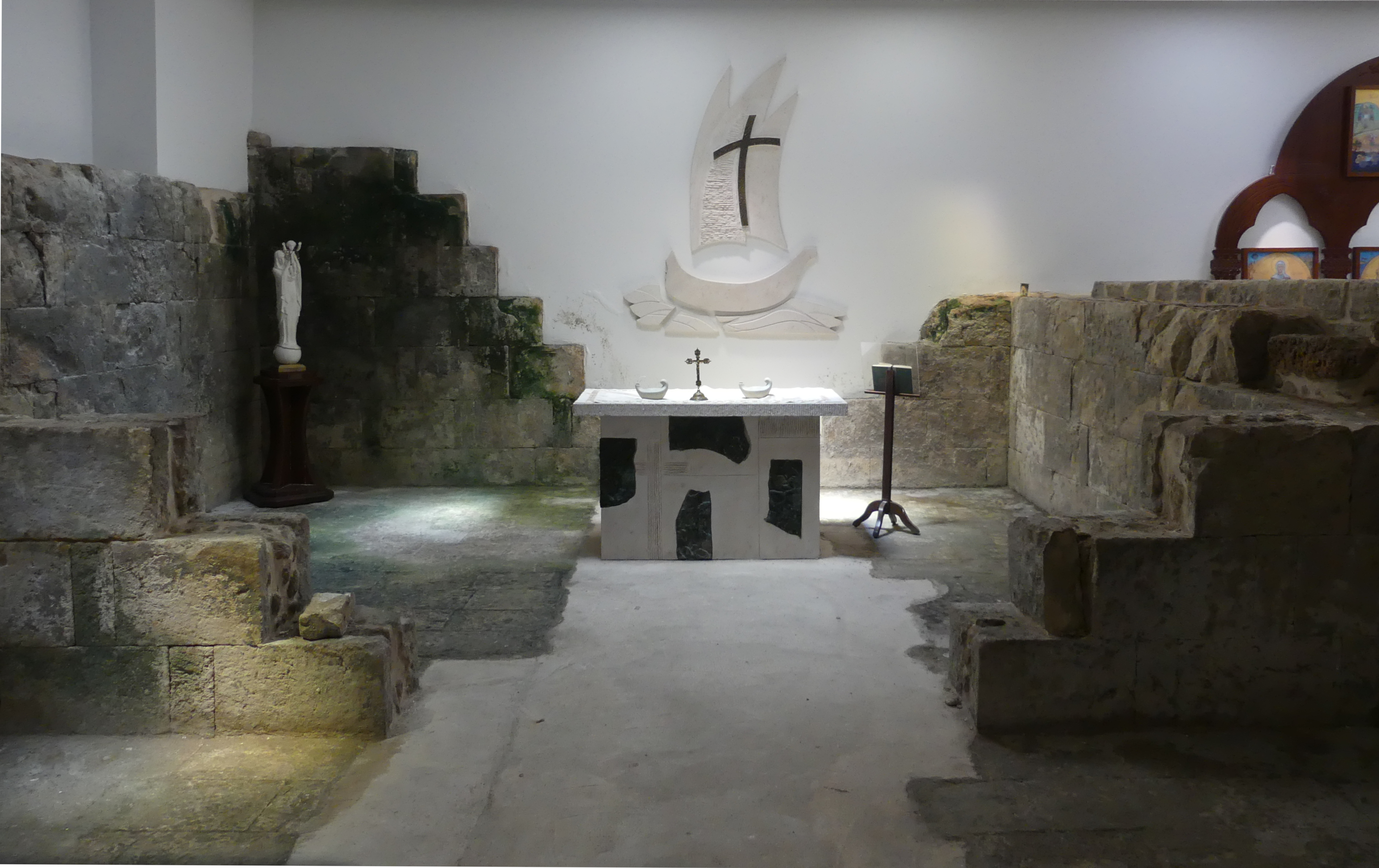 The archaeological site of an early Christian church in the basement of the Maronite Cathedral "Our Lady of the Seas" in Tyre/Sour, Southern Lebanon